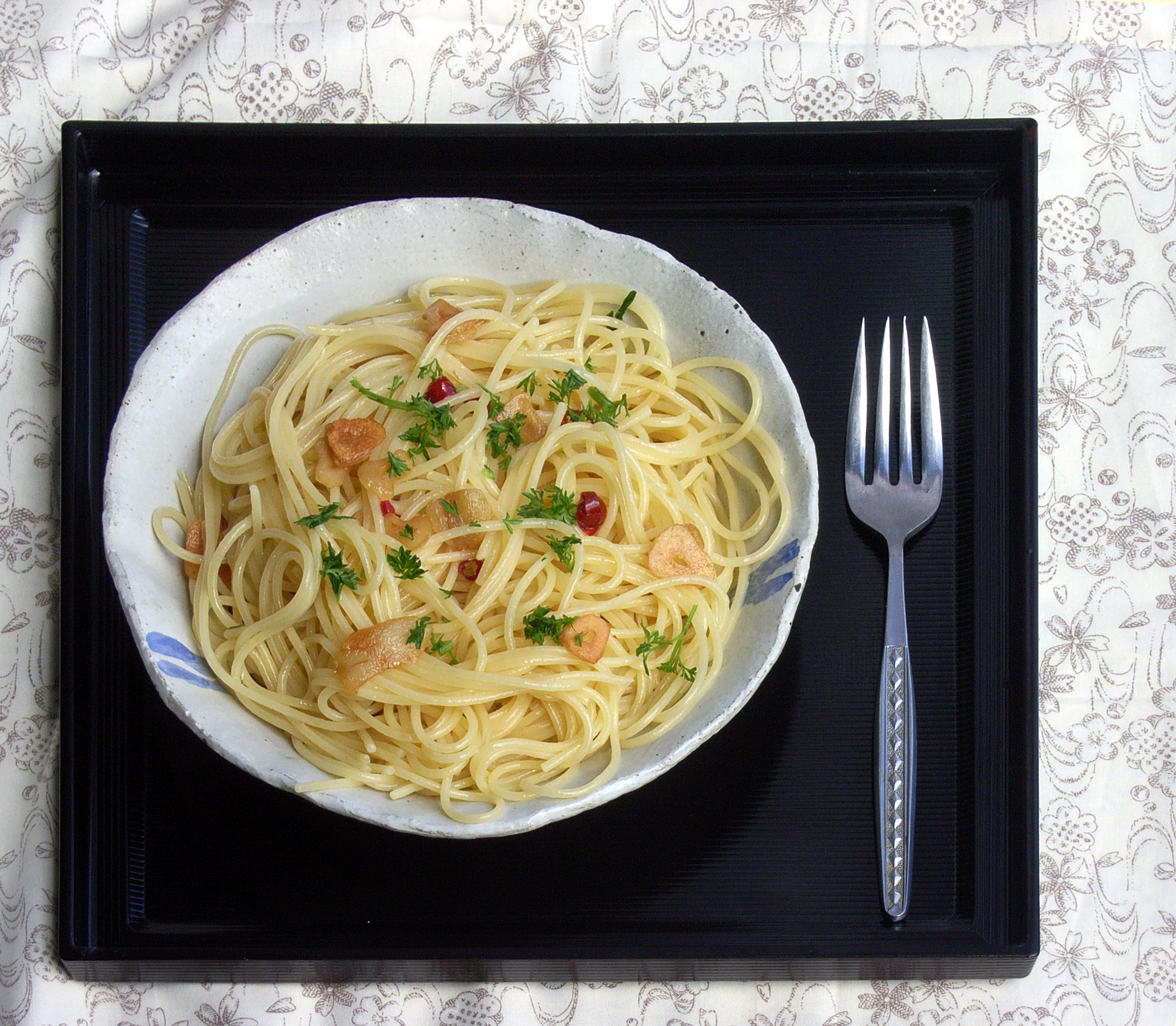 Spaghetti, I cooked. Spaghetti with garlic, oil and chilli